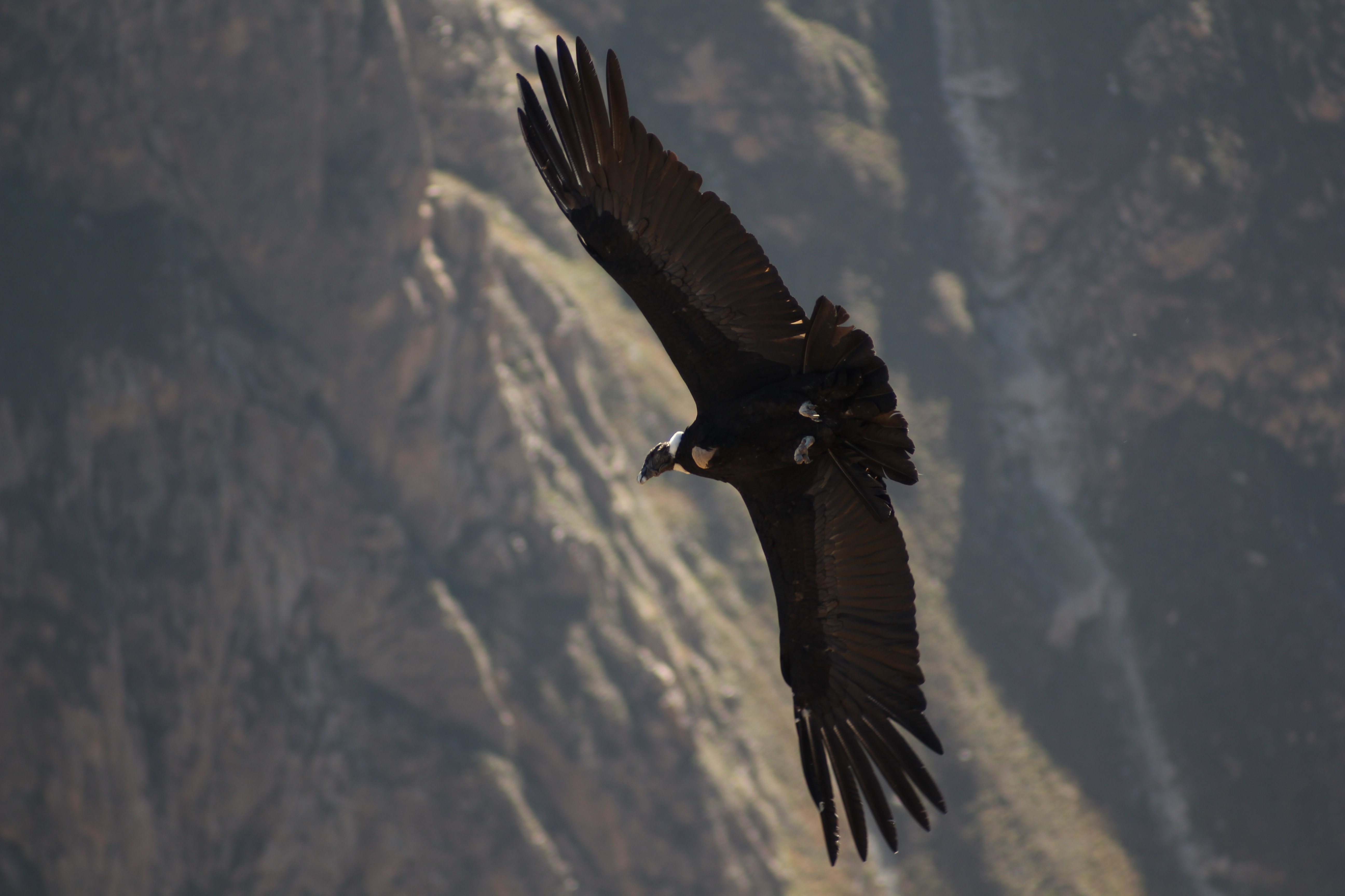 Taken at Cruz del Condor, Colca Canyon, Peru with my Canon EOS 650D and my Meyer-Optik Görlitz Orestor 2,8/135mm (with M42 Adapter).